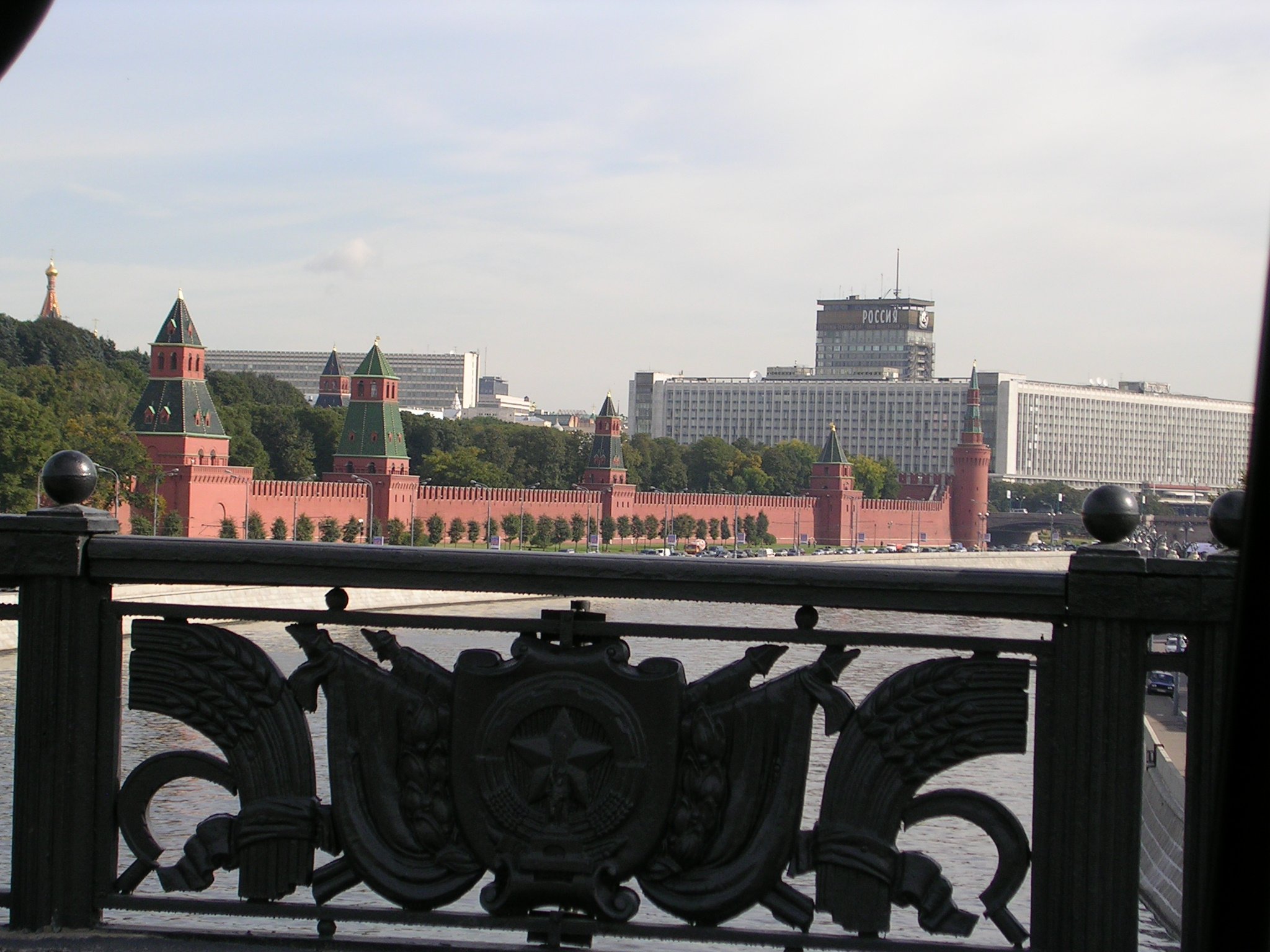 The Россия hotel looms over the Kremlin compound. Viewed from a bridge over the river (while stuck in a traffic jam, naturally!). Photo by Pete Verdon.